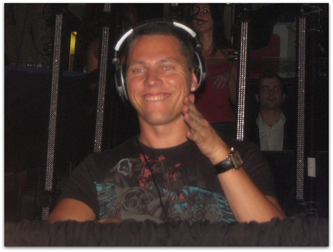 Tiesto concert on November 9th, 2008